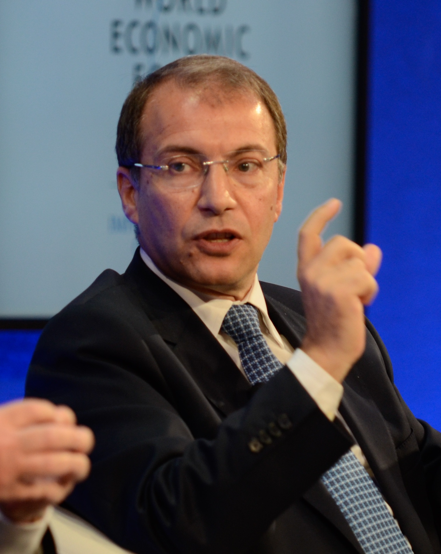 ISTANBUL, TURKEY, 5 June 2012 - Samir Assaf, Chief Executive, Global Banking and Markets, HSBC Bank, United Kingdom, speaks during a TV debate at the World Economic Forum on the Middle East, North Africa and Eurasia in Istanbul, 4-6 June 2012. Copyright World Economic Forum ( by Dana Smillie